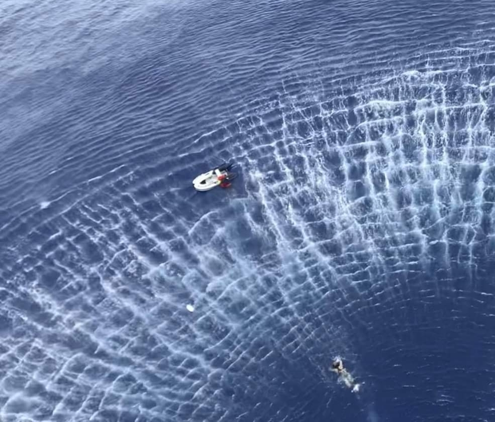 PACIFIC OCEAN (July 24, 2019) Naval Air Crewman (Helicopter) 2nd Class Preston Smith, from Stevens Point, Wisconsin, assigned to the Island Knights of Helicopter Sea Combat Squadron (HSC) 25, swims toward a civilian in distress aboard a sailboat during a search and rescue mission near Guam. HSC-25 provides a multi-mission rotary wing capability for units in the U.S. 7th Fleet area of operations and maintains a Guam-based 24-hour search-and-rescue and medical evacuation capability, directly supporting U.S. Coast Guard and Joint Region Marianas. HSC-25 is the Navy’s only forward-deployed MH-60S expeditionary squadron. (U.S. Navy photo/Released)190724-N-GC129-735